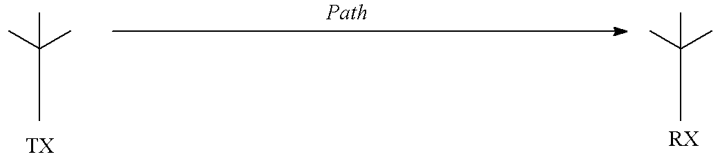 A diagram which I drew to explain some effects seen in TV systems, this for the article on ghosting an effect seen in AN UHF TV systems where a second image is seen displaces horizontally (normally to the right) of the main image.